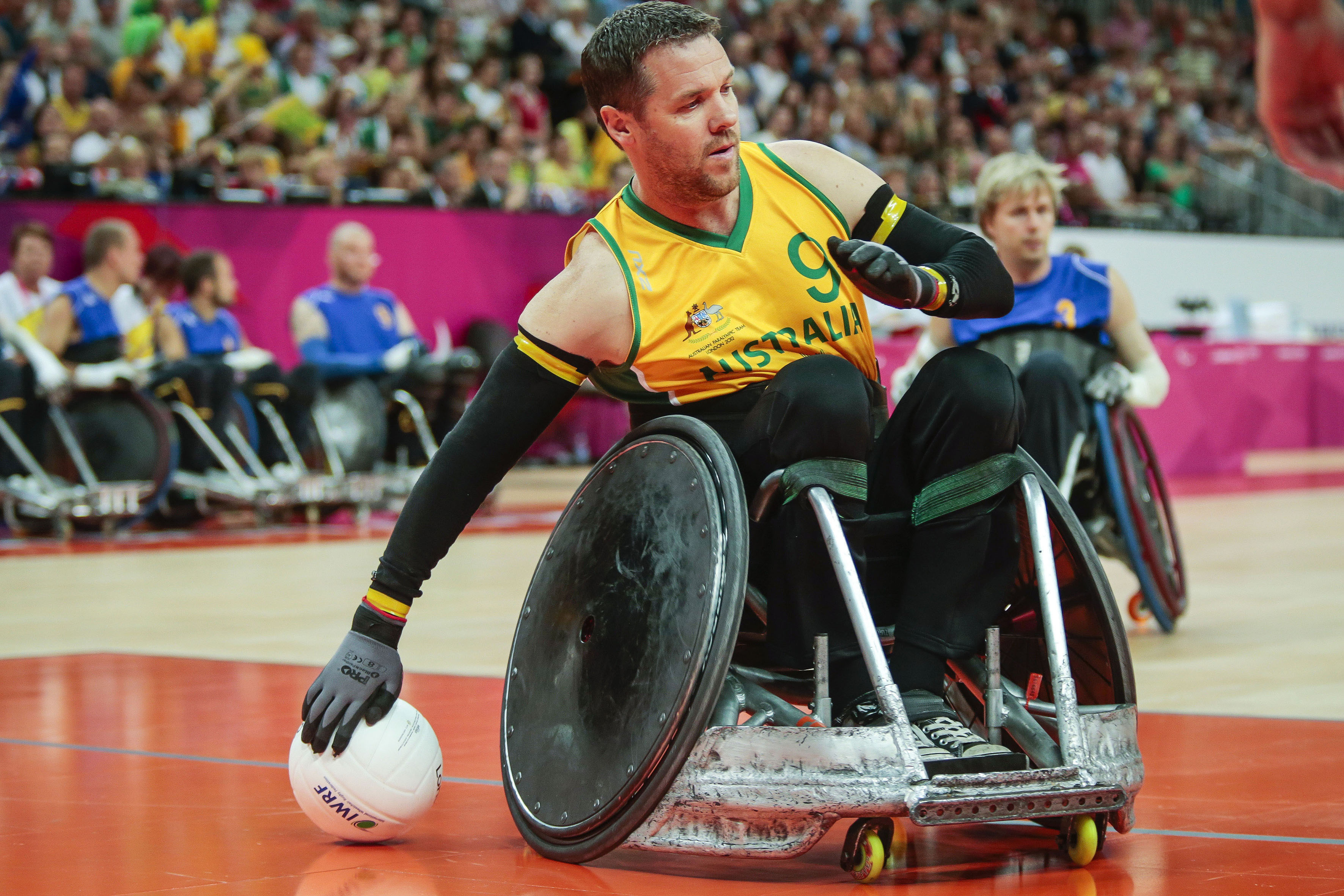 Photograph of Australian Paralympic team member Greg Smith at the 2012 Summer Paralympic Games in London